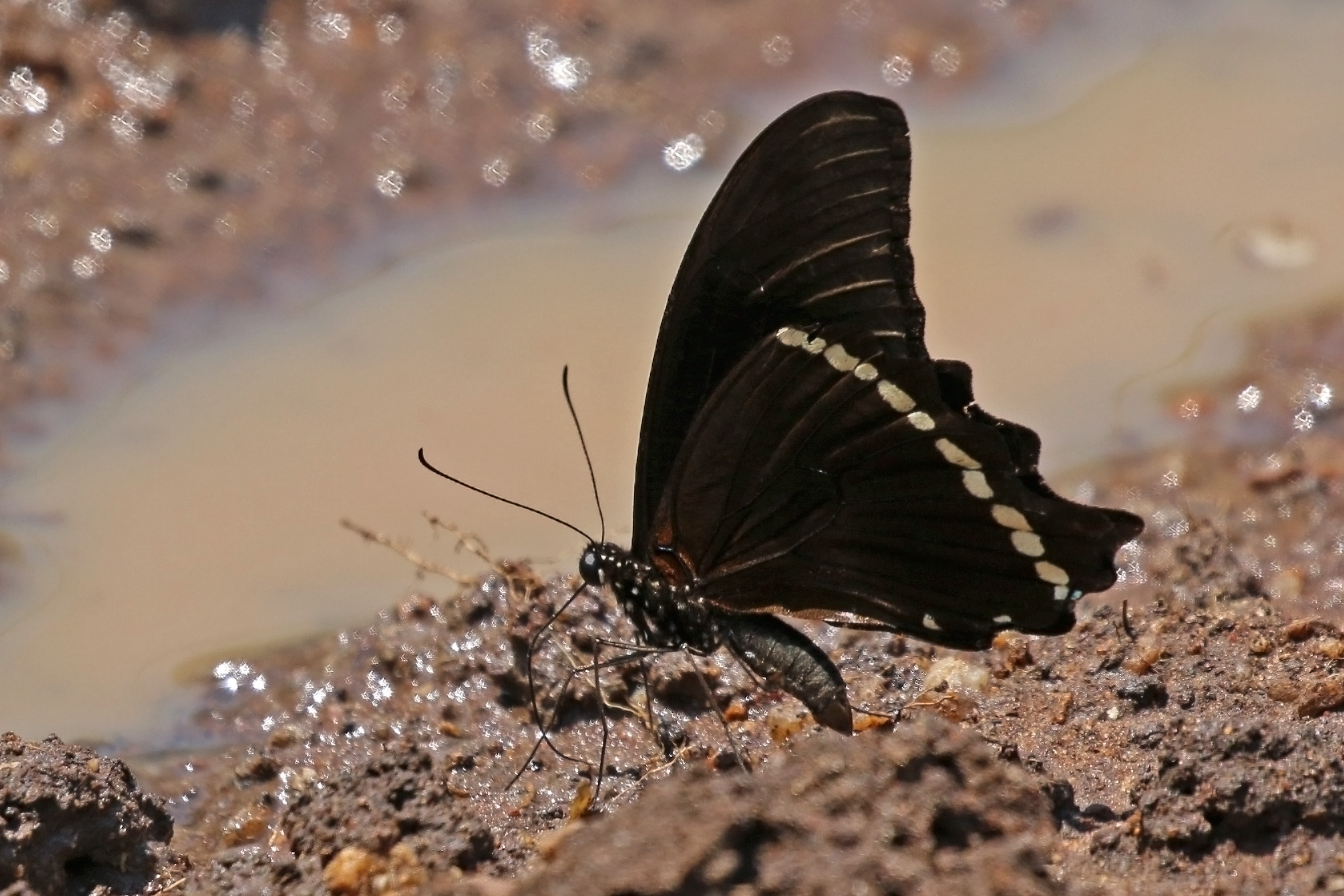 Narrow blue-banded swallowtail (Papilio nireus lyaeus), Semliki Wildlife Reserve, Uganda